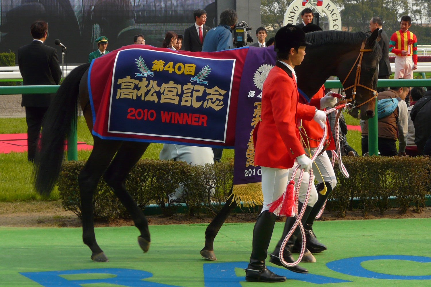 Kinshasa-no-Kiseki20100328